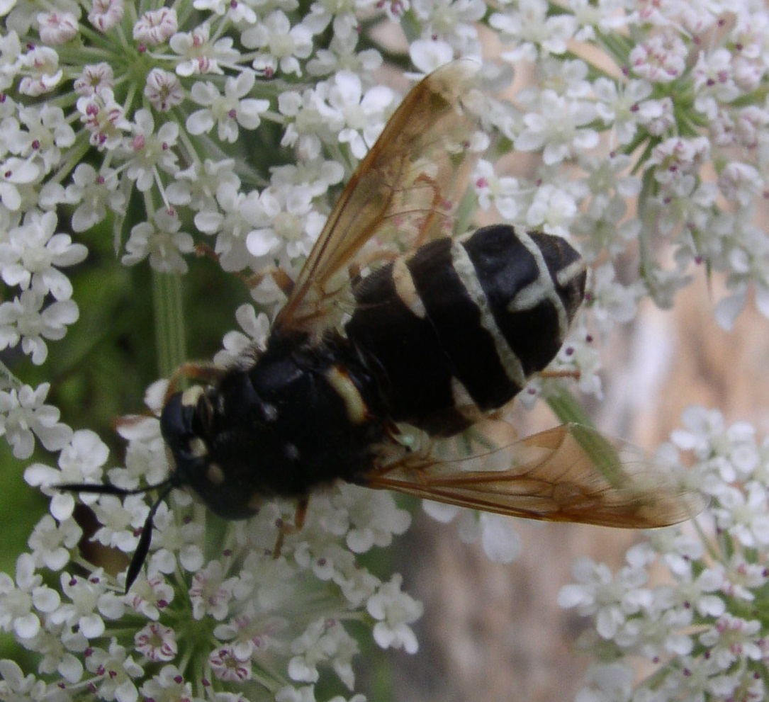 Female soldier fly, Stratiomys badia, on Queen Anne's lace. Tupper Lake, Adirondacks Park, Franklin County, New York, USA.